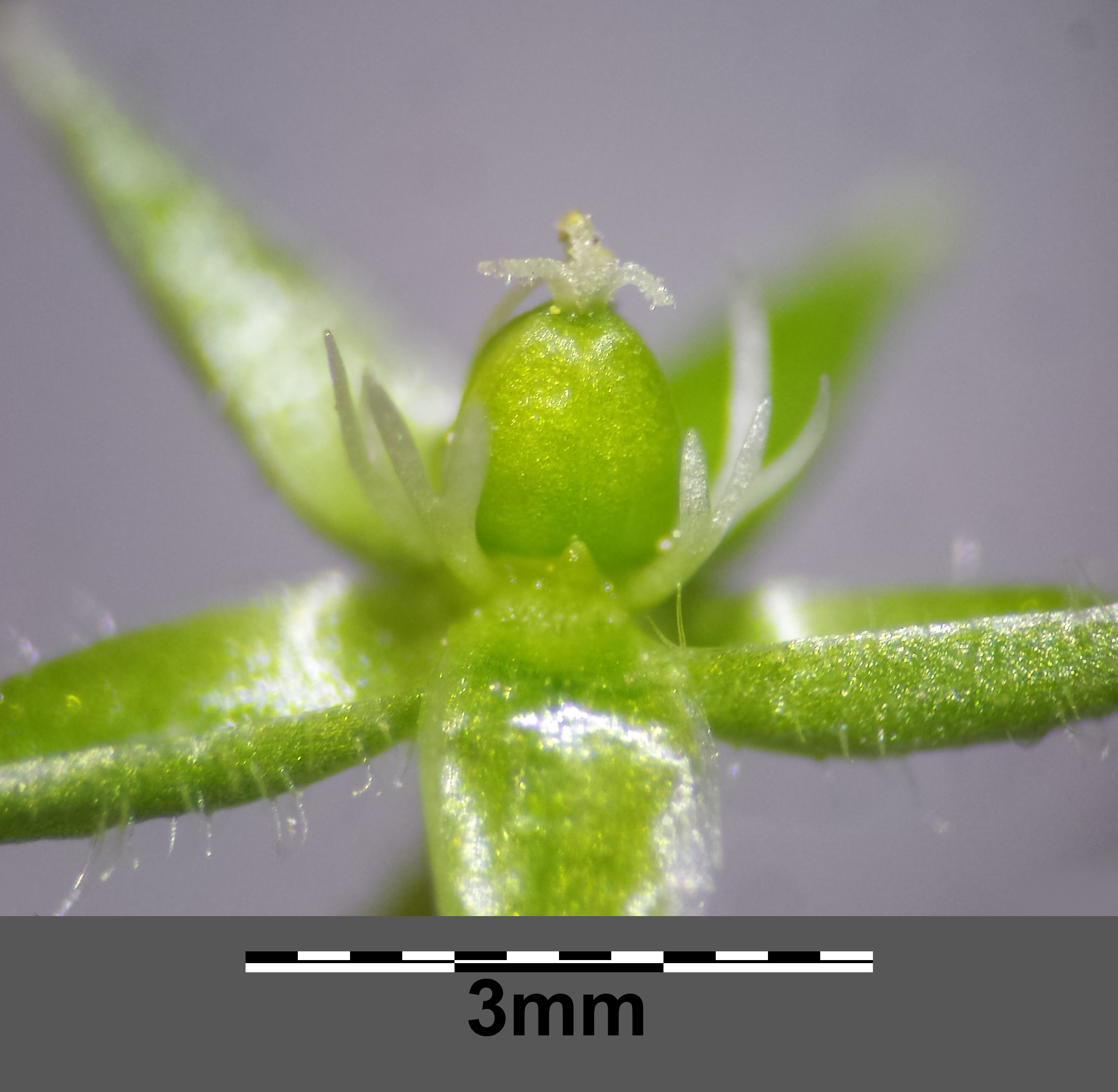 Flower with sepals, minute petals and ovary with three styli Taxonym: Stellaria pallida ss Fischer et al. EfÖLS 2008 ISBN 978-3-85474-187-9 Location: Sinawastingasse, Vienna-Floridsdorf - ca. 160 m a.s.l. Habitat: ruderal lawn